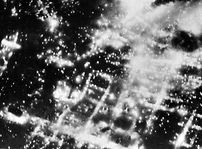 A view of Braunschweig on fire during the October 1944 bombing